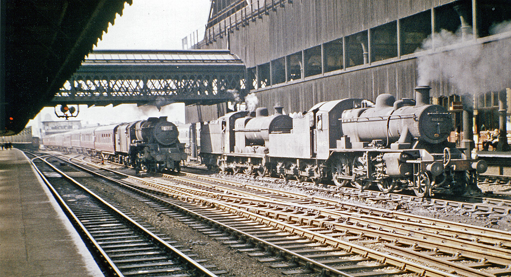 Manchester Victoria Station, with train. View westwards - again - from the long through platform 11; ex-Lancashire & Yorkshire and London & North Western trunk lines. An eastbound express, with the typical Stanier Class 5MT 4-6-0, is charging from Exchange (left background) through towards Yorkshire without banker, while LMS Ivatt 2MT 2-6-0 no.46452 and a Fowler 4F 0-6-0 wait to bank other trains up to Miles Platting (in colour, for a change).